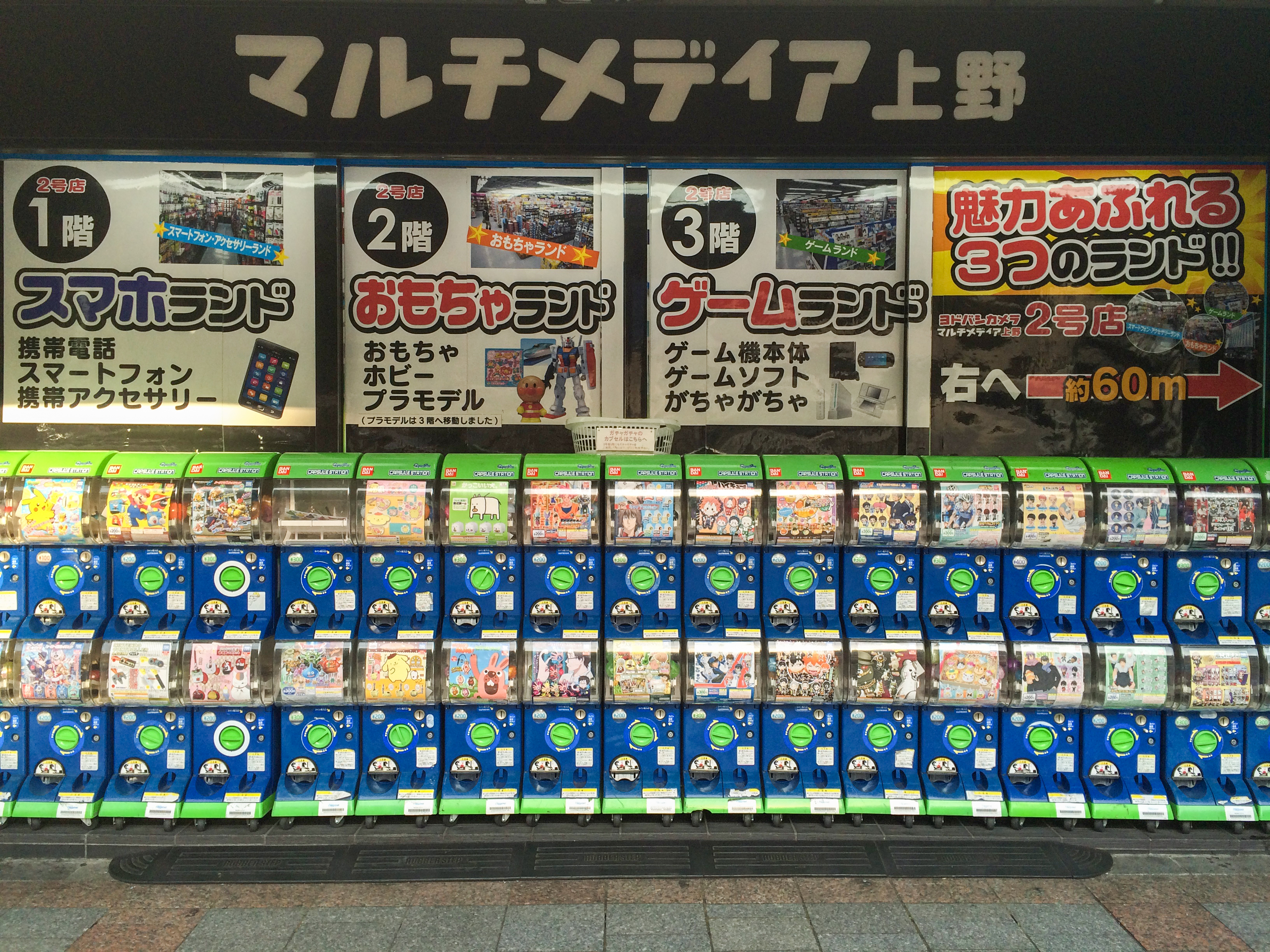 Gashapon machine in Ueno